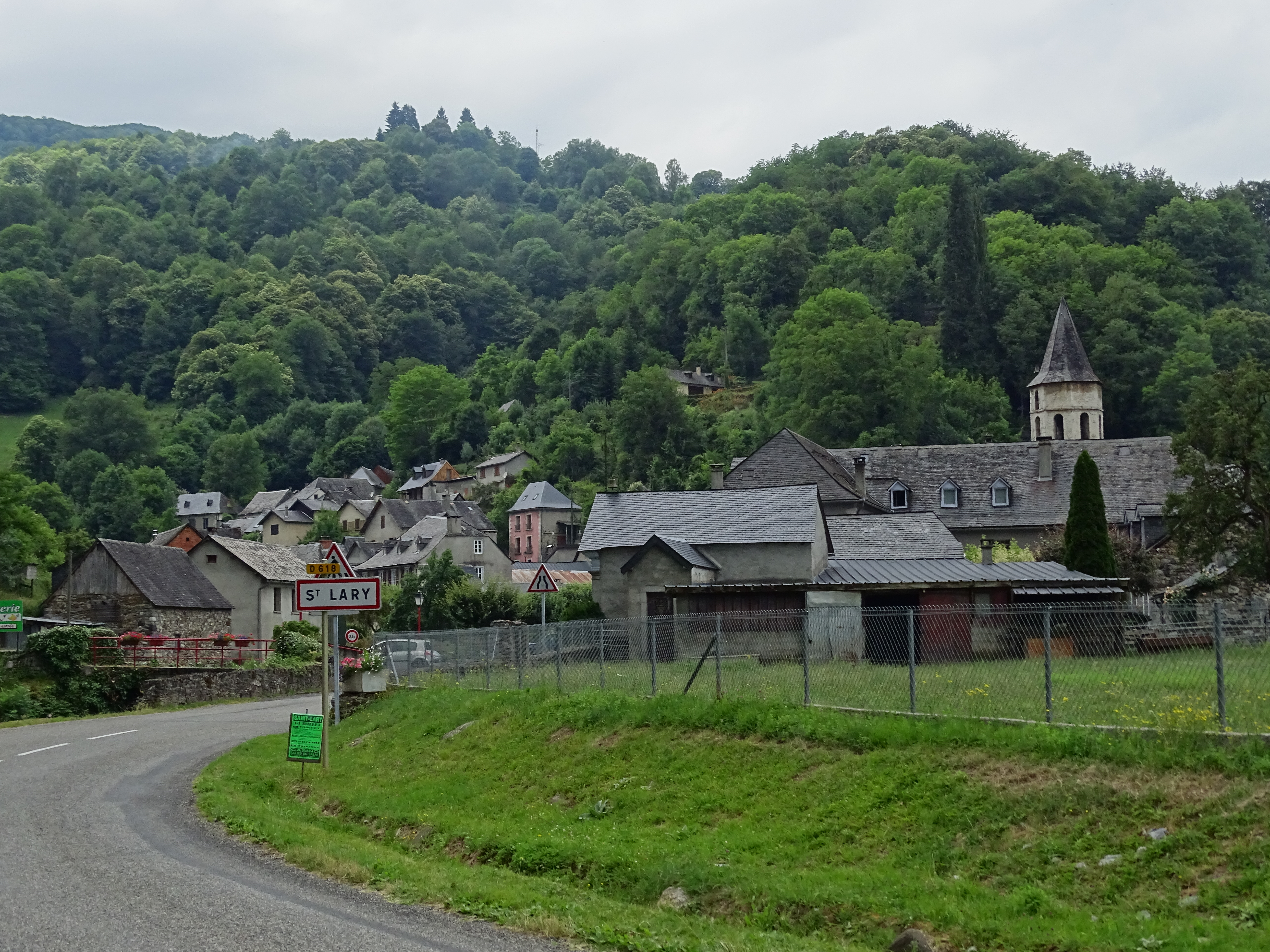 Saint-Lary, Ariège, France